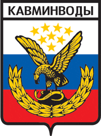 Caucasian Mineral Waters region, emblem